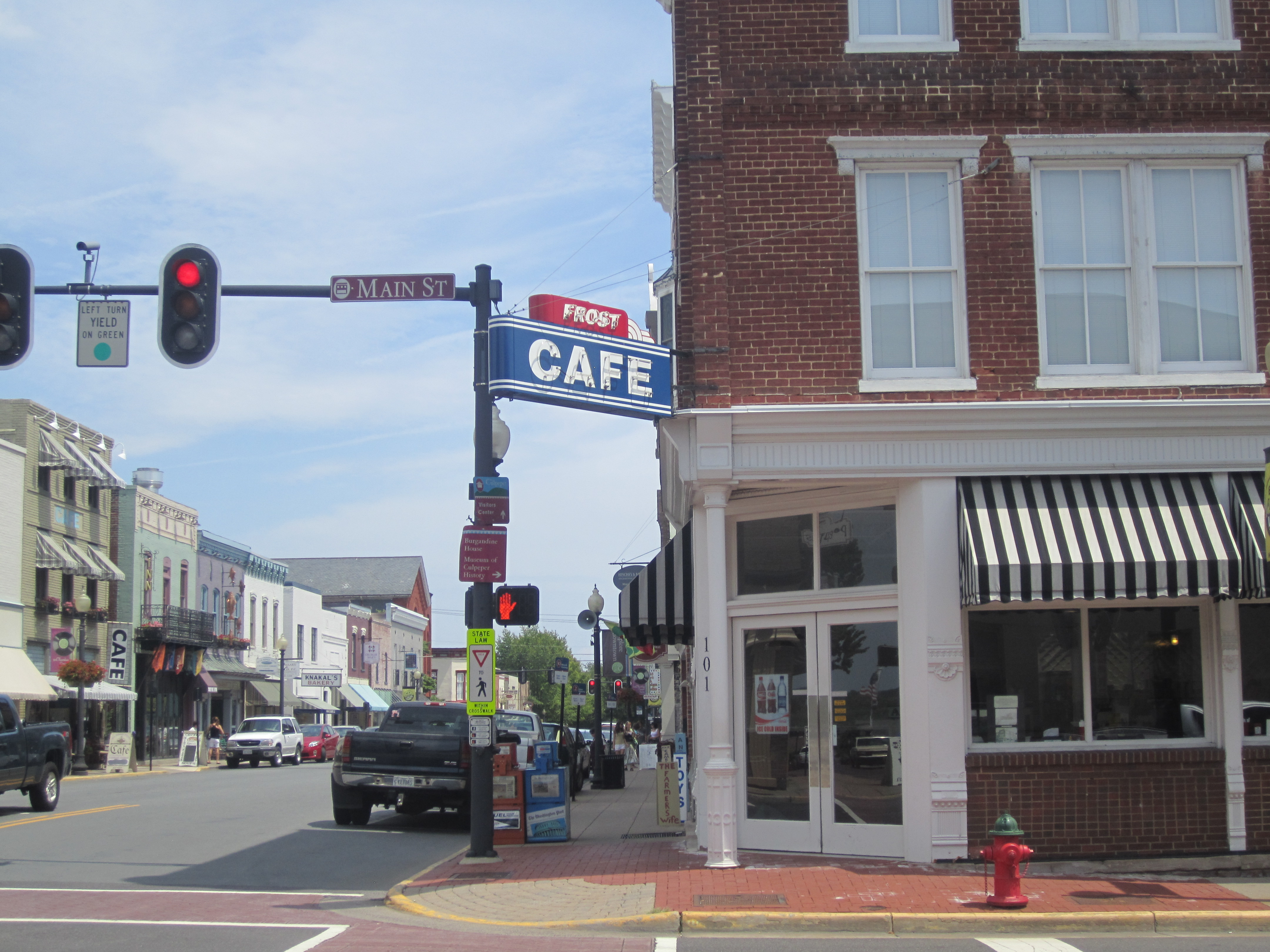 I took picture of downtown Culpeper, VA, with Canon camera.